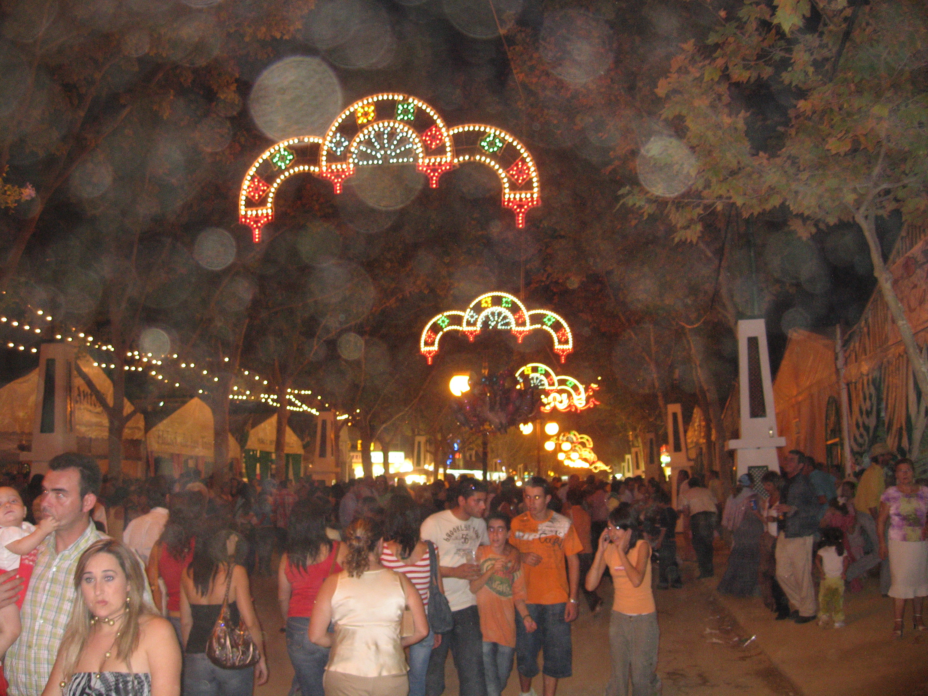 Feria at Arcos de la Frontera. Andalusia (Spain)